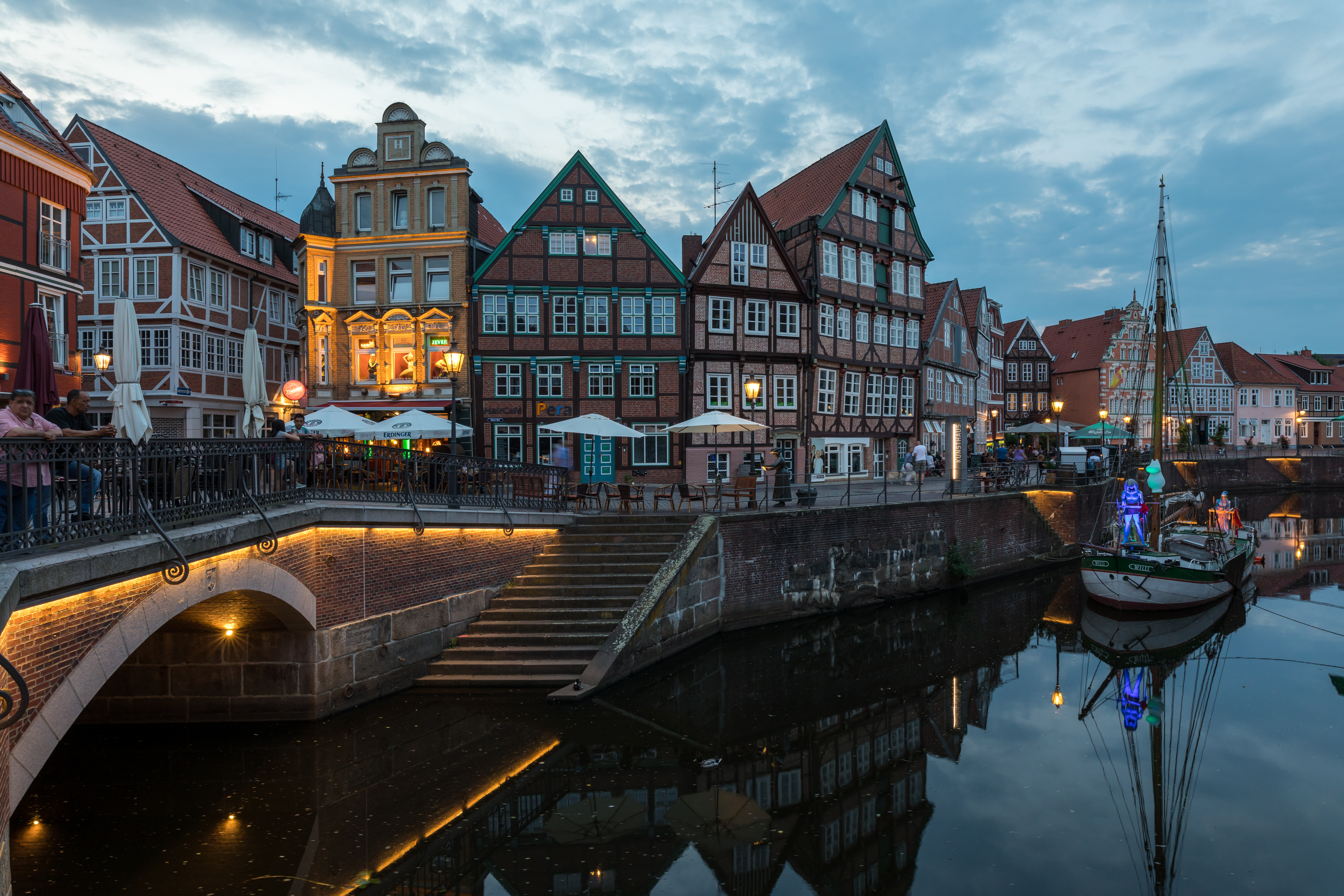 Hanse harbour, Stade, Lower Saxony, Germany